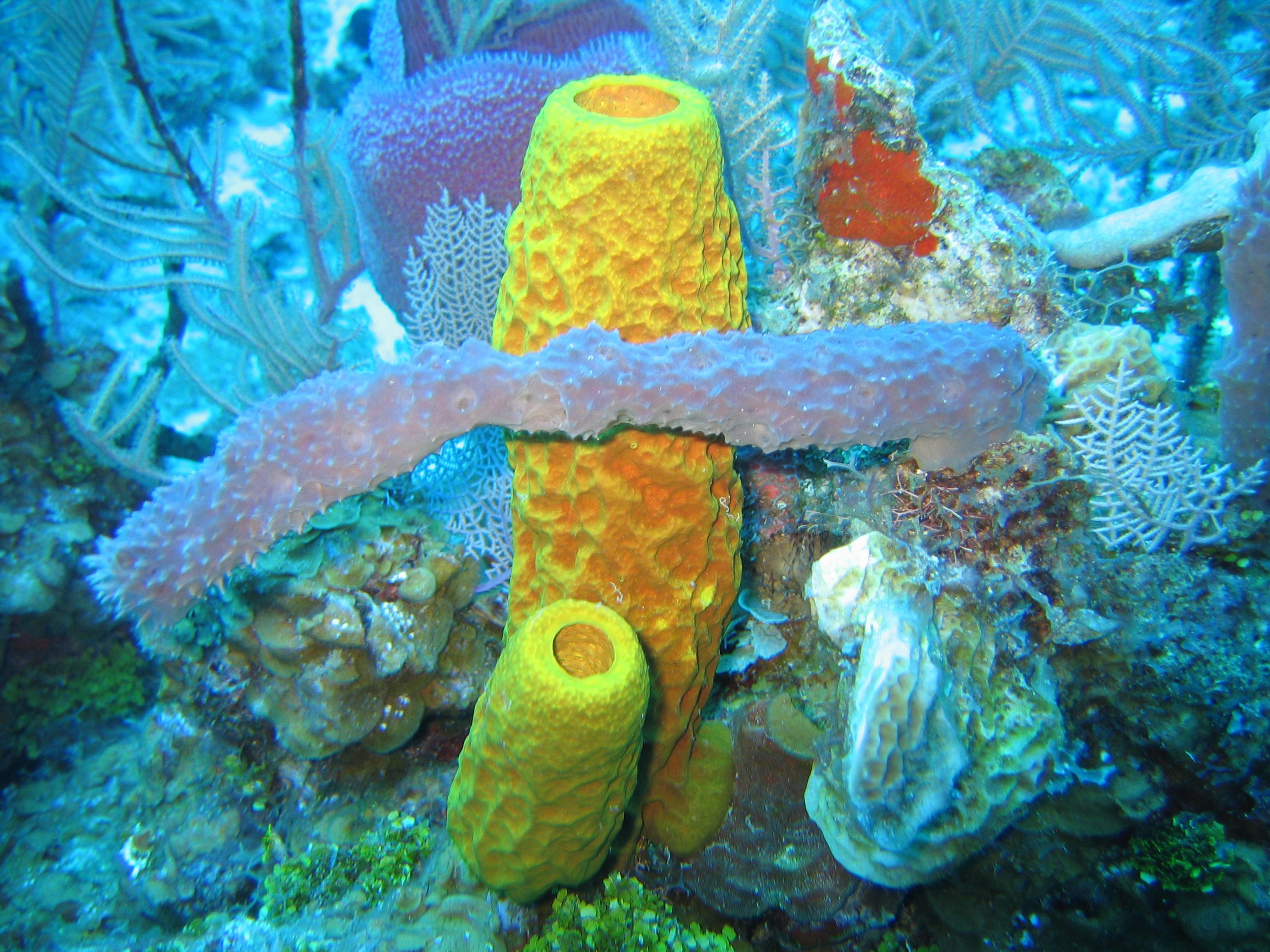 Sponge biodiversity and morphotypes at the lip the wall site in 60 feet of water . Included are the yellow tube sponge, Aplysina fistularis, the purple vase sponge, Niphates digitalis, the red encrusting sponge, Spiratrella coccinea, and the gray rope sponge, Callyspongia sp. Caribbean Sea, Cayman Islands.